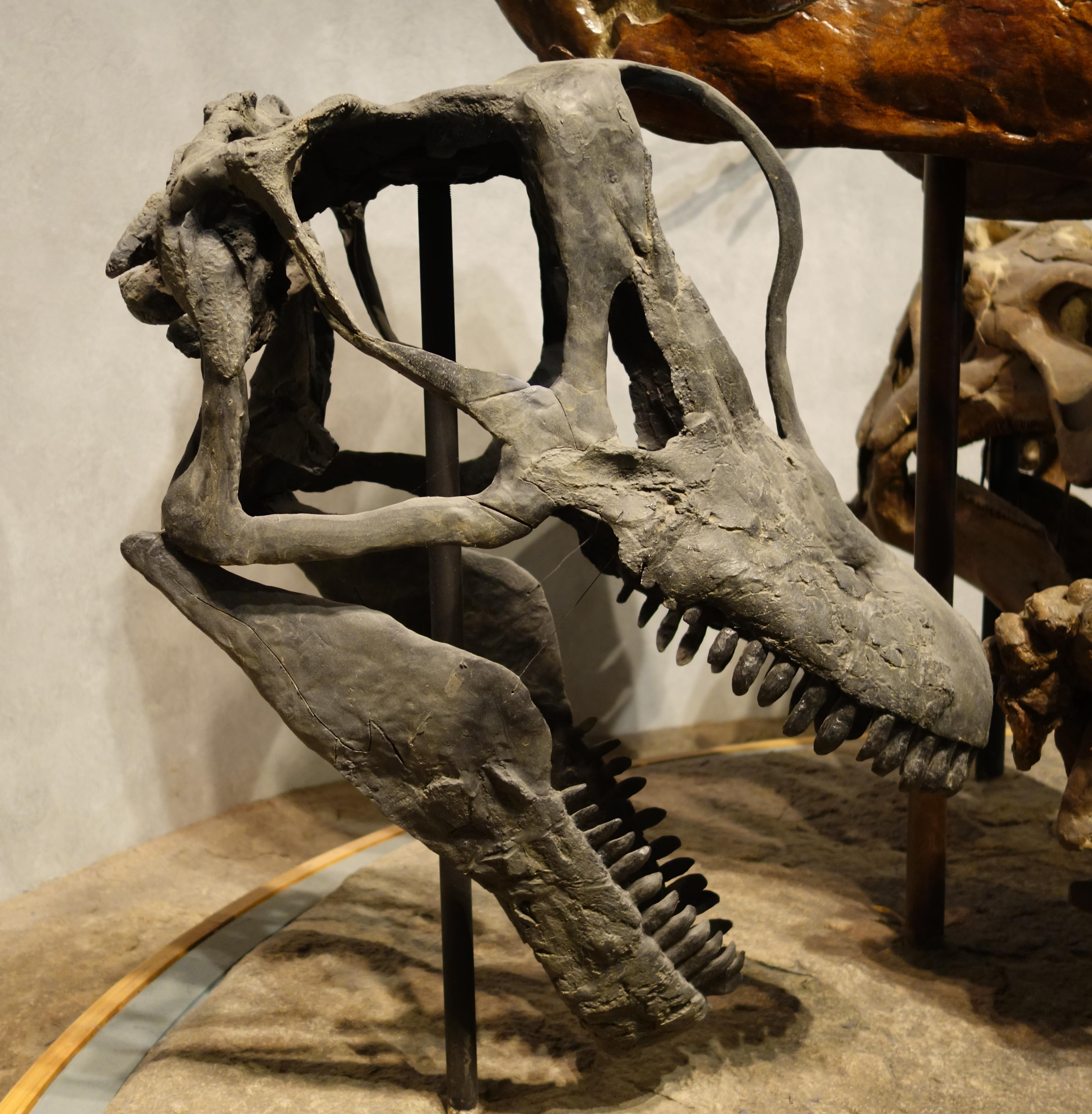 Reconstruction of the Brachiosaurus skull from the Felch Quarry (USNM 5730), on display at the Denver Museum of Nature and Science.